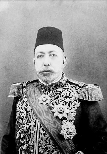 35th Sultan of the Ottoman Empire and 114th caliph of Islam, Mehmed V.